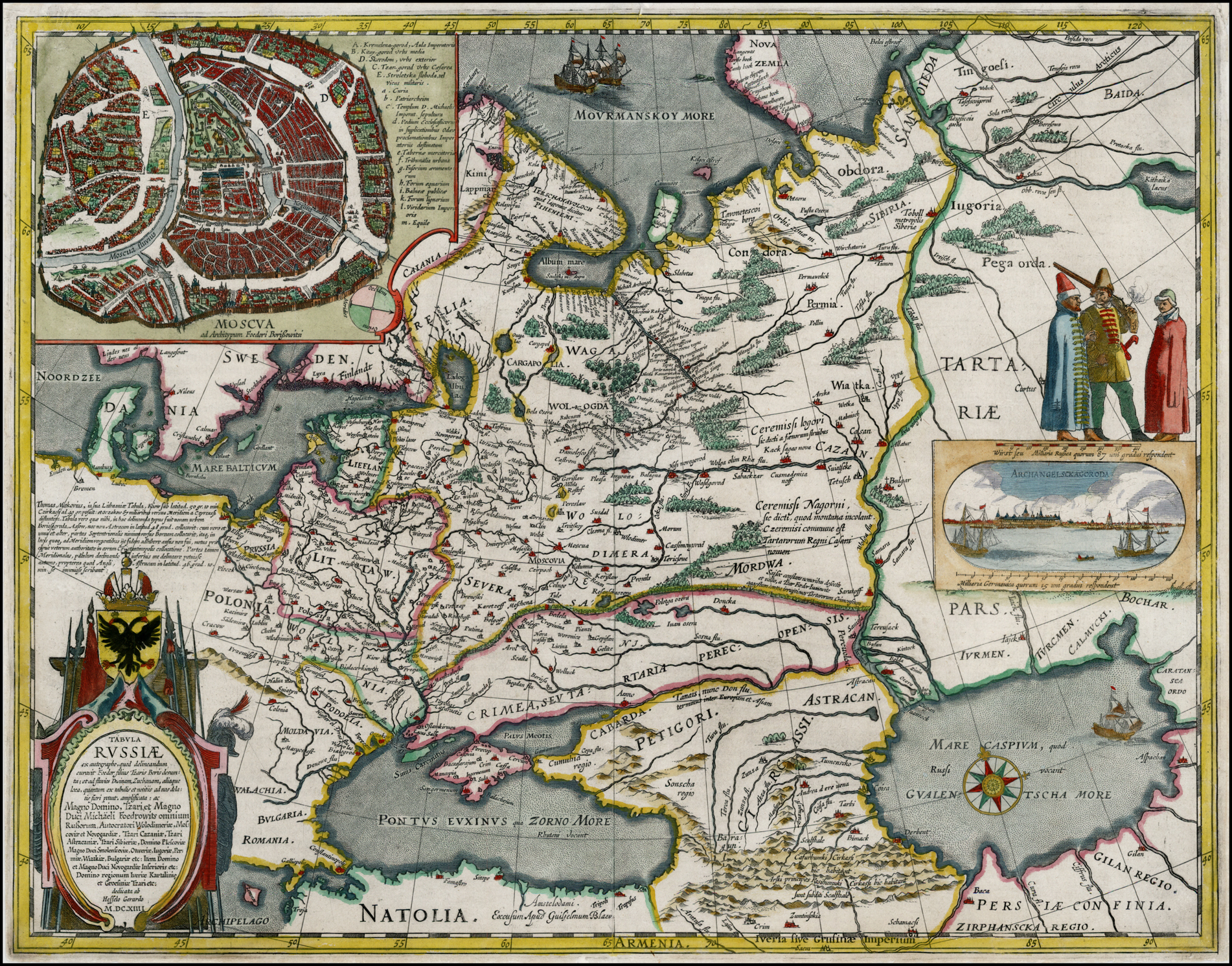 Willem Janszoon Blaeu: Tabula Russiae ex autographo, quod delineandum curavit Foedor filius Tzaris Borois desumta …. MDCXIIII A gorgeous example of Hessel Gerritsz's map of Russia, with the large inset of Moscow and plan of Archangelsckagoroda. Hessel Gerritsz's map of Russia, first issued 1613, was published by Blaeu after he acquired the plate following Gerritsz's death in 1632. The top left corner has an inset plan of Moscow with a 17-point key. On the right is a prospect of Archangel, Russia's only northern port until the founding of St Petersburg in 1700. Three figures in Russian dress stand above. The title is within a martial cartouche. The map was compiled from manuscript maps and work brought back by Isaac Massa. The inset plan of Moscow has been attributed to the Crown Prince Fydor Gudonov.